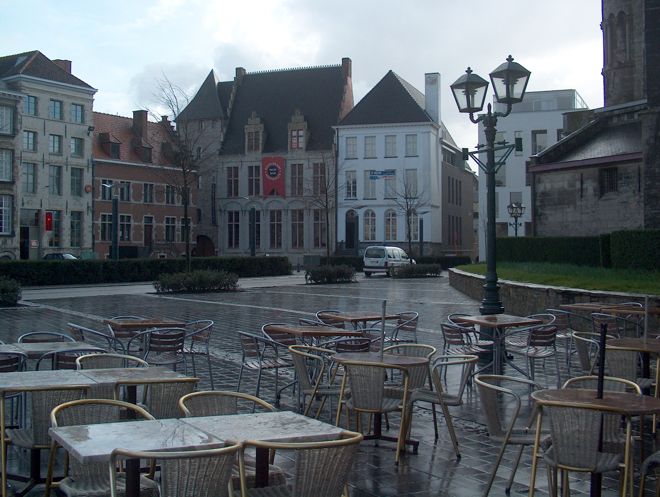 The house of Margaret of Parma